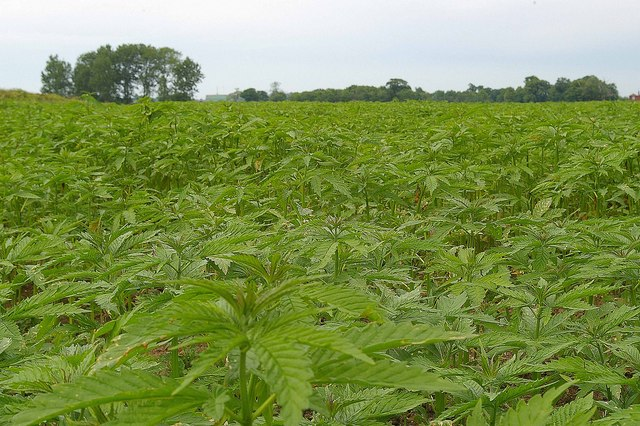 Highless Hemp. A field of THC free hemp for making rope, hessian and other useful things just outside Southminster.